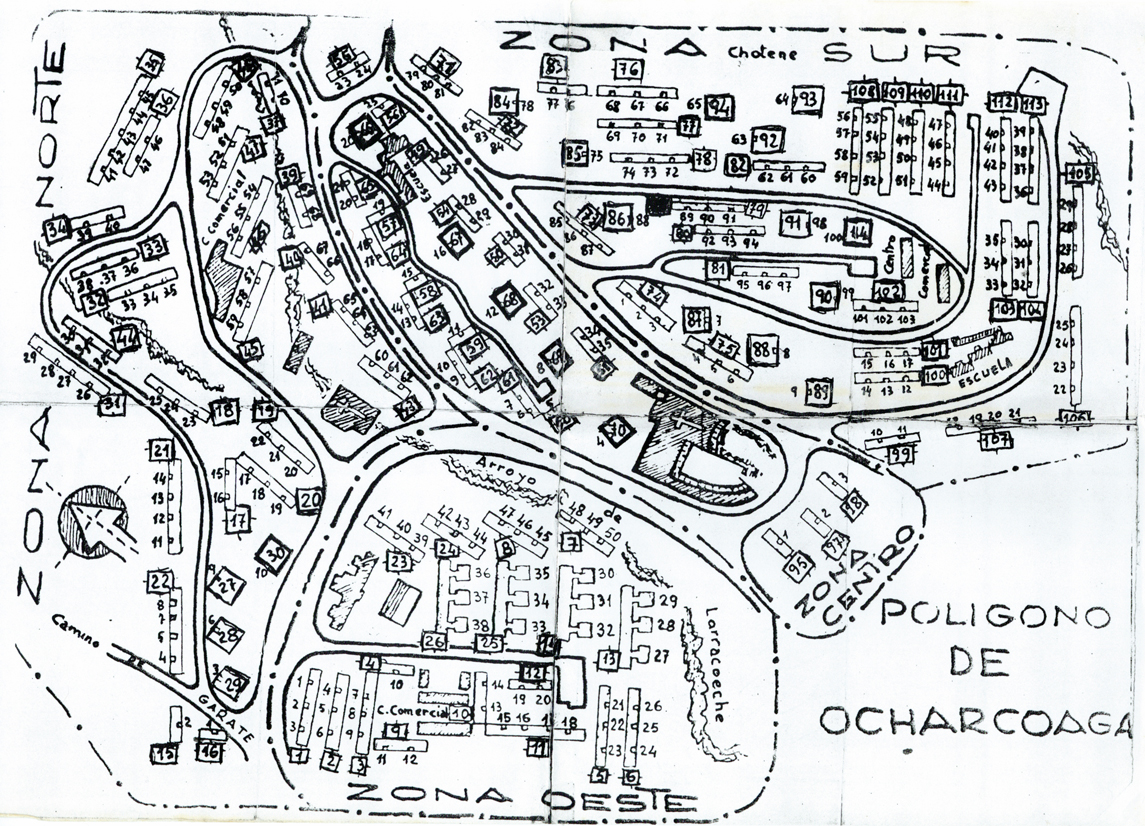 Otxarkoaga district's initial development's map (year 1959).